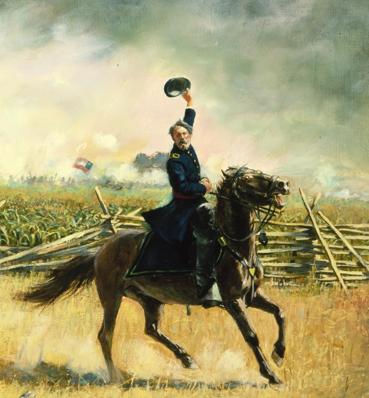 The Fourth Alabama by Don Troiani for the state of Alabama, 1861. Note: The Fourth Alabama (now a part of the 167th Infantry) at Manassas; Confederate Brig. Gen. Bernard Bee leads the 4th Alabama against Matthew's Hill. On the morning of July 21, 1861, the Union Army under the command of Brig. Gen. Irvin McDowell, in an effort to cripple the newly assembled Confederate Army at Manassas, Virginia, fired the opening shots of the first major battle of the Civil War. Both armies were largely made up of volunteer militia with regiments on both sides wearing blue and gray uniforms. The brunt of the Union attack fell on the Confederate left flank. Confederate Brig. Gen. Bernard Bee, having recently resigned from the United States Army and still wearing his blue uniform, realized that the army's left flank was seriously exposed. Bee ordered the Fourth Alabama to advance rapidly in order to plug the gap in the Confederate line. For over an hour, the Fourth Alabama held its position and repulsed several Union regiments. The gallant stand of the Fourth Alabama stalled the Union advance and gave the Confederate forces more time to regroup. The regiment played a prominent part in the fighting all day and contributed to the Confederate victory. The Battle of First Manassas proved to both sides that the Civil War would be a bitterly contested struggle. The Fourth Alabama went on to fight in every major battle in the Eastern Theater of the Civil War and never surrendered its colors. The heritage and traditions of the Fourth Alabama are carried on by the 1st Battalion, 167th Infantry, Alabama Army National Guard.